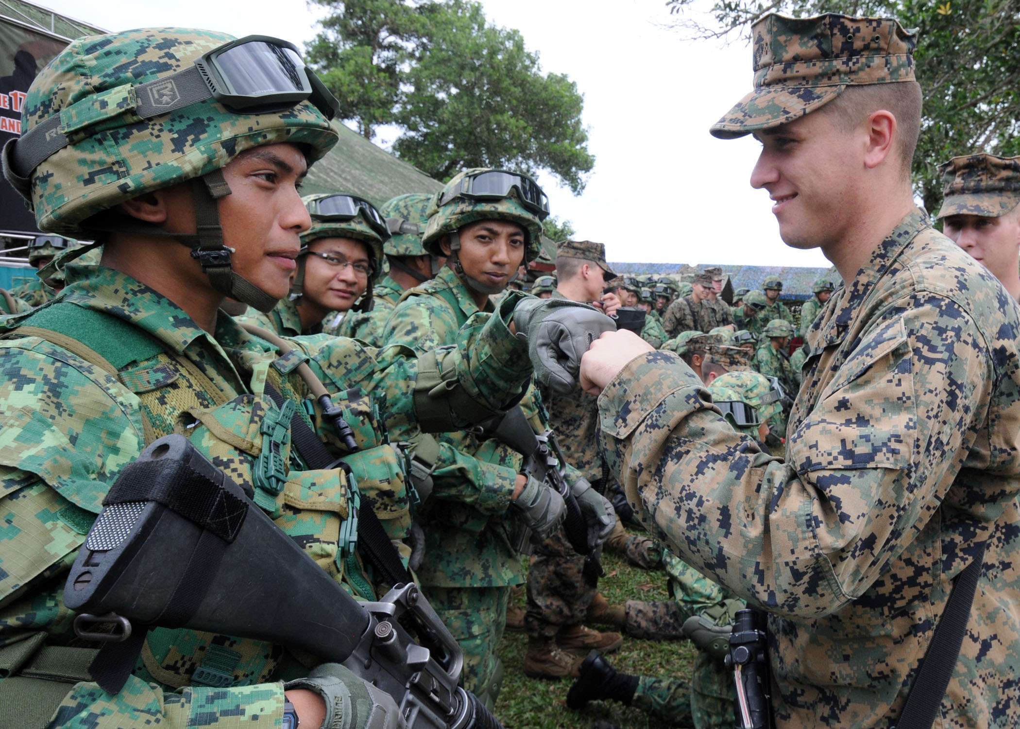 U.S. Marine Corps Lance Cpl. Richard Hooper, right, assigned to Fleet Antiterrorism Security Team Pacific, says goodbye to a Bruneian land forces soldier following military operations on urban terrain training in support of Cooperation Afloat Readiness and Training (CARAT) Brunei 2011 in Seria, Brunei, Oct. 6, 2011. CARAT is a series of bilateral exercises held annually in Southeast Asia to strengthen relationships and to enhance force readiness.